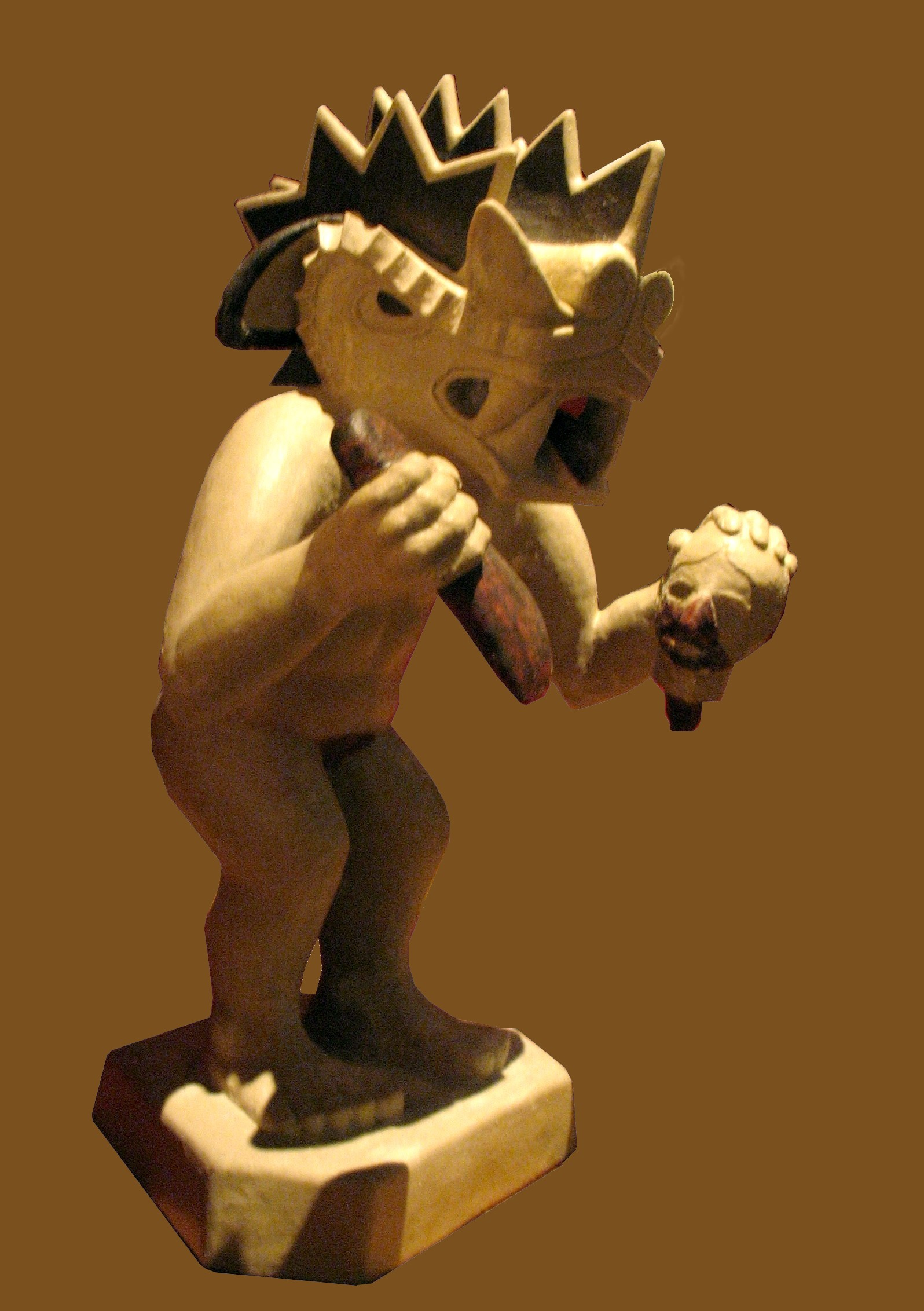 A reproduction of a Moche statue on display at the Army Museum in Stockholm. The translation of the caption in the background is as follows: "THE DECAPITATOR" A ferocious mythological being from the Moche culture in Peru (c. 500 BC). In his right hand he is holding a "tumi" – a ritual sacrificial knife. At the top of Moche society reigned warrior-priests who presided over sacrificial ceremonies where prisoners of war were decapitated and cut up, after which their blood was greedily drunk. The Moche people possessed no writing system, but their artwork is unparalleled in pre-Columbian America. In the 8th century AD the culture disappeared without explanation. Sculpture after a contemporary clay vessel from Peru.